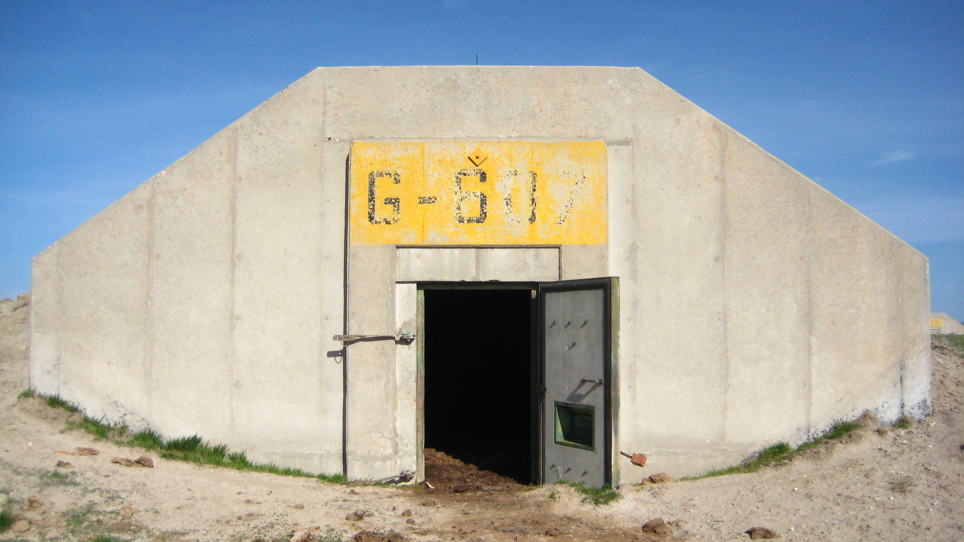 A munitions storage building, or "igloo", as found at Black Hills Ordnance Depot.